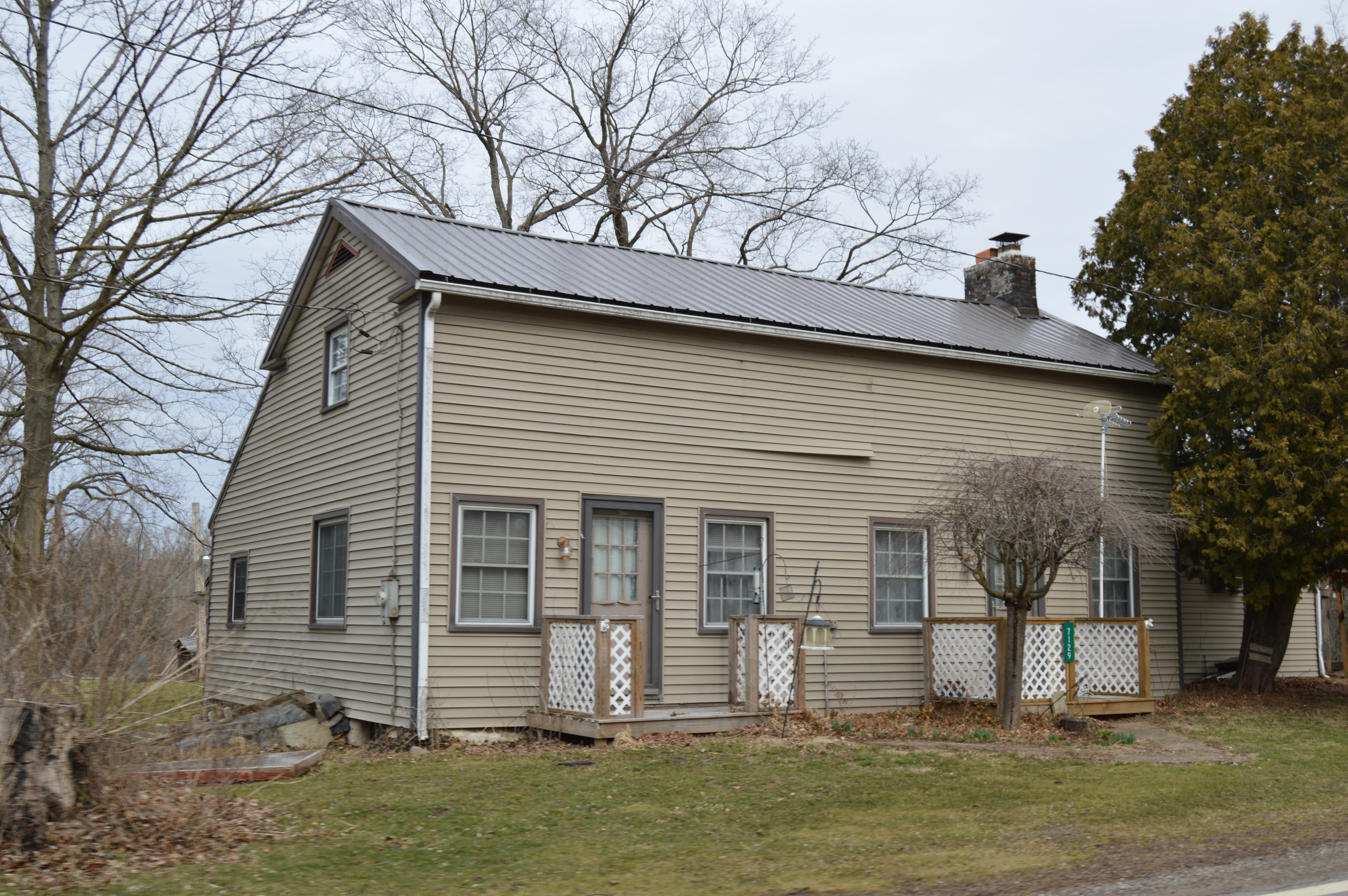 Front and western side of an old saltbox house on State Route 656 at East Liberty in Porter Township, Delaware County, Ohio, United States.